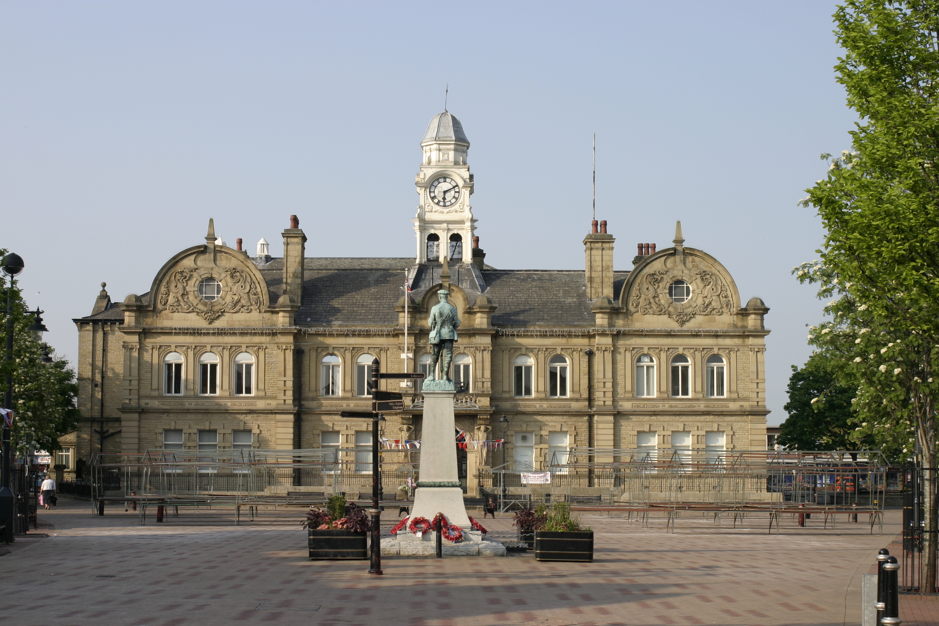 Ossett town hall on a clear day with memorial statue visible.